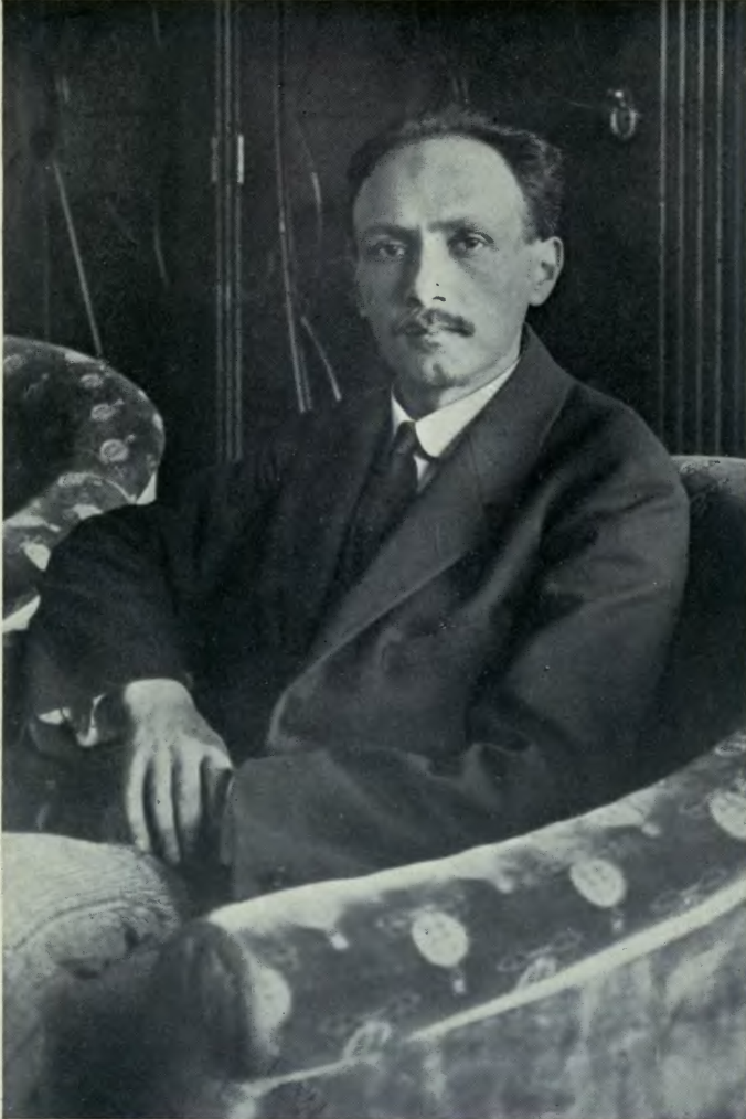 Béla Vágó, Vicecommissar for Home Affairs in the Hungrian Soviet governemnt, 1919.